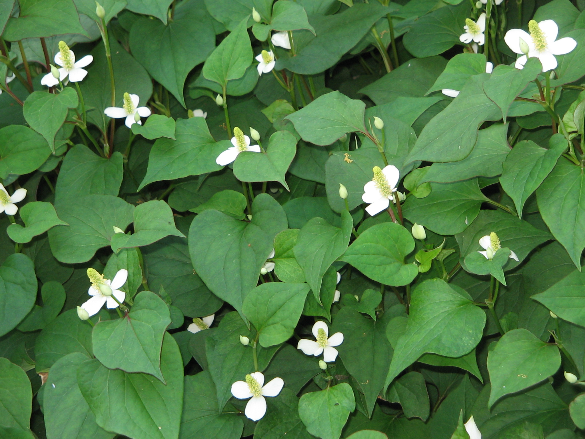 Houttuynia cordata